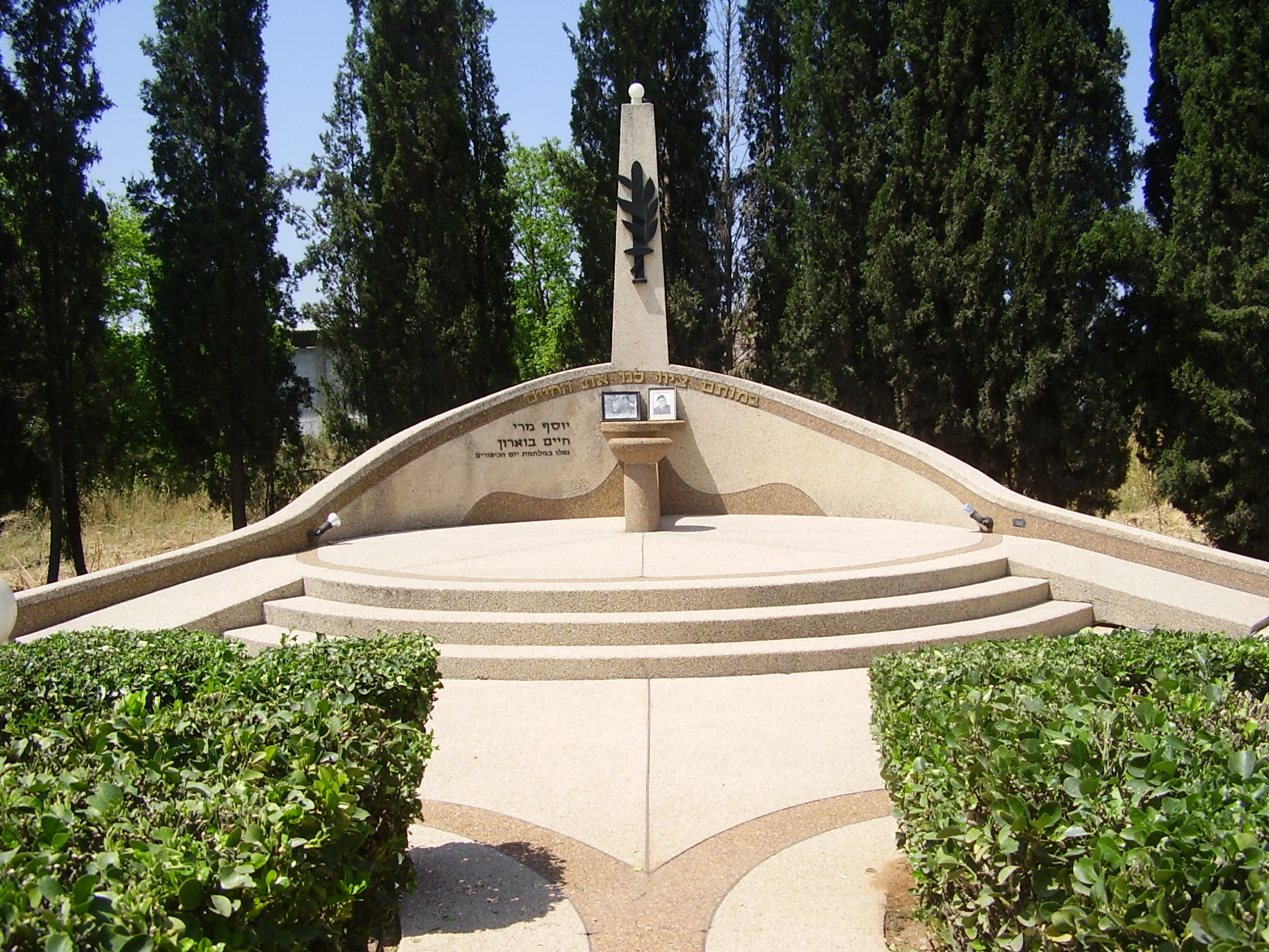 War memorial in Neve-Yamin, Israel